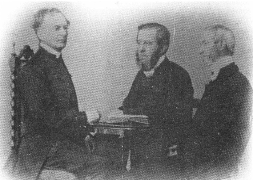 Bishop Hale, Archdeacon Brown, Rev. W. Mitchell. Early senior Anglican clergy in the Swan River Colony